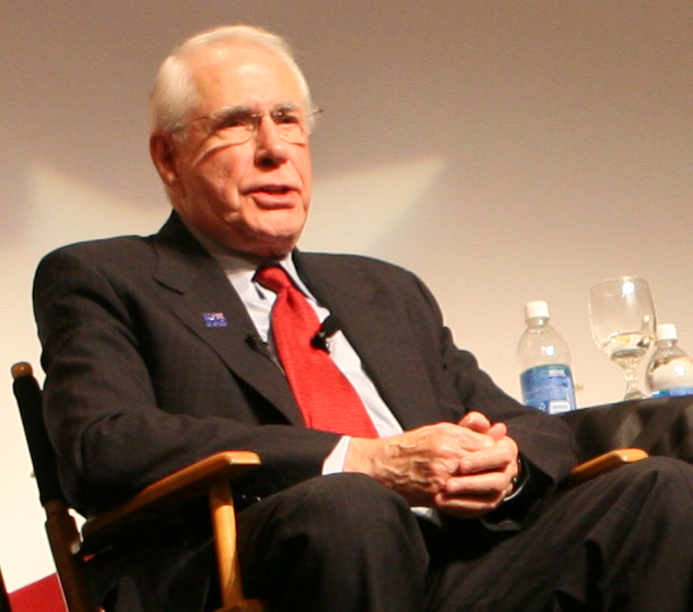 Bob Barr Denver Convention 740